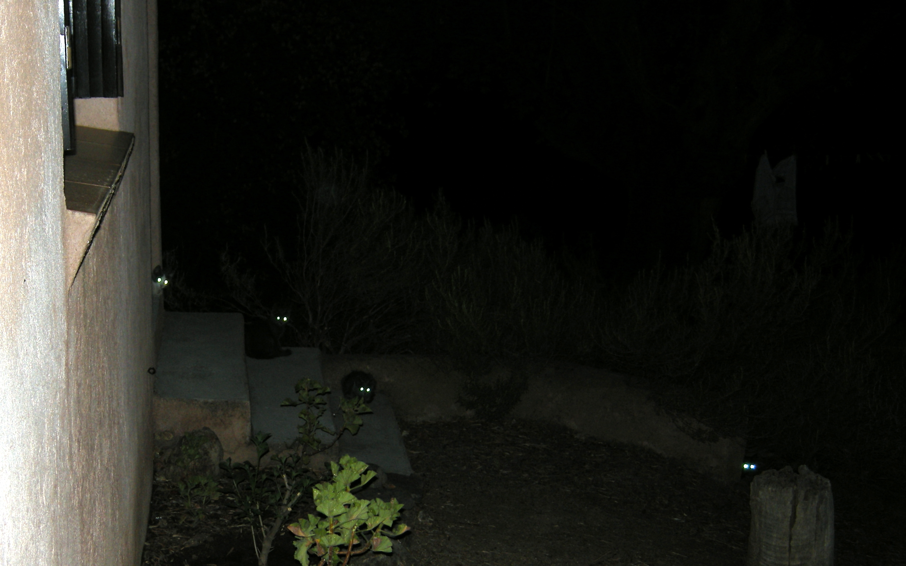 4 kittens in the dark